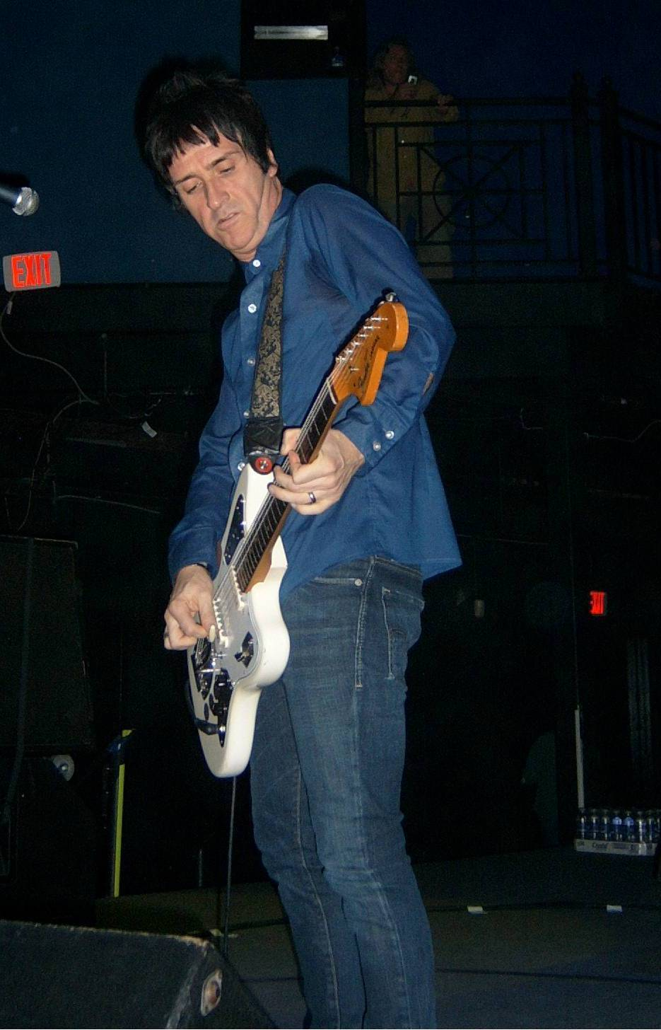 British guitarist Johnny Marr performs as part of The Cribs at the 9:30 Club in Washington, D.C.